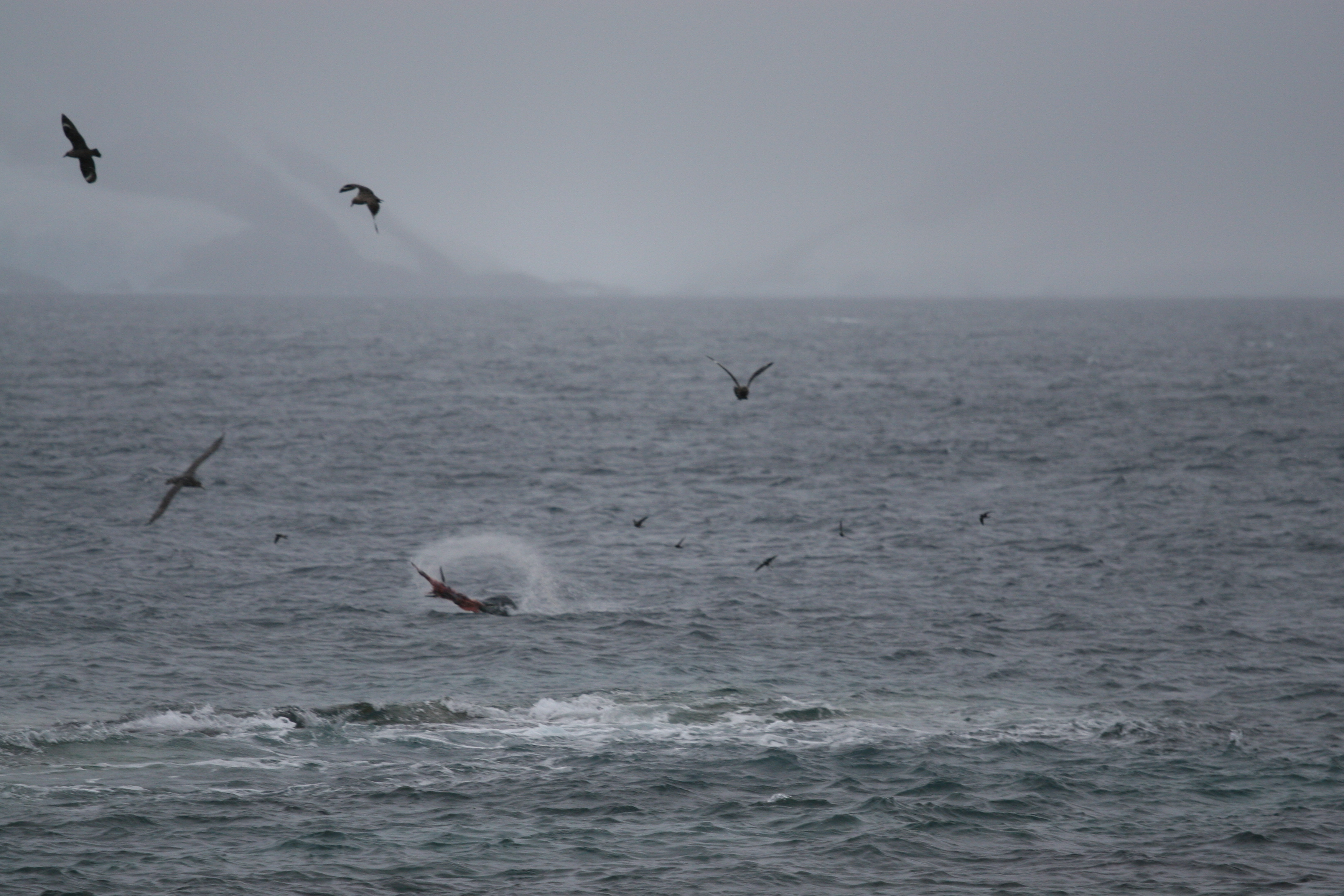 A Gentoo penguin being eaten by a Leopard seal.